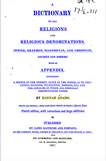 A Dictionary of All Religions and Religious Denominations, Jewish, Heathen ... (1817), By Hannah Adams